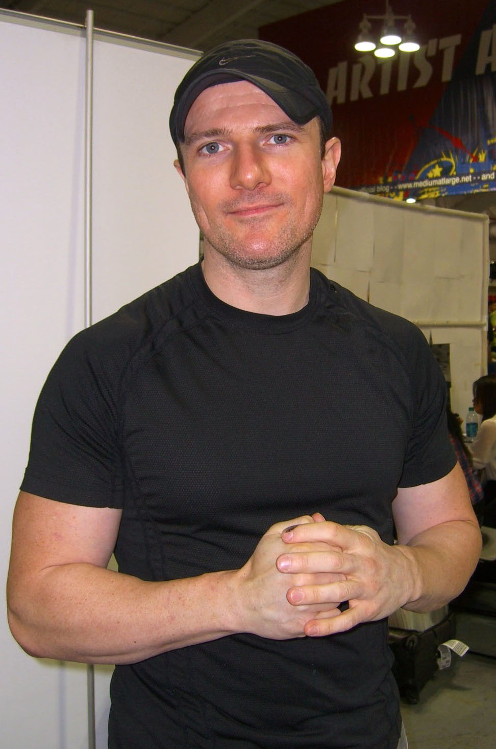 Comics creator David W. Mack on Day 3 of the 2012 New York Comic Con, Saturday October 13, 2012 at the Jacob K. Javits Convention Center in Manhattan. This photo was created by Luigi Novi. It is not in the public domain, and use of this file outside of the licensing terms is a copyright violation.